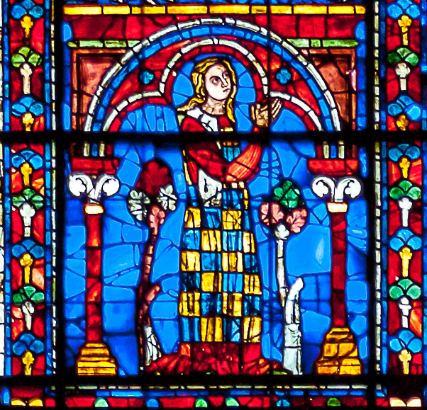 Chartres Cathedral, South Window (Bay 122), Detail